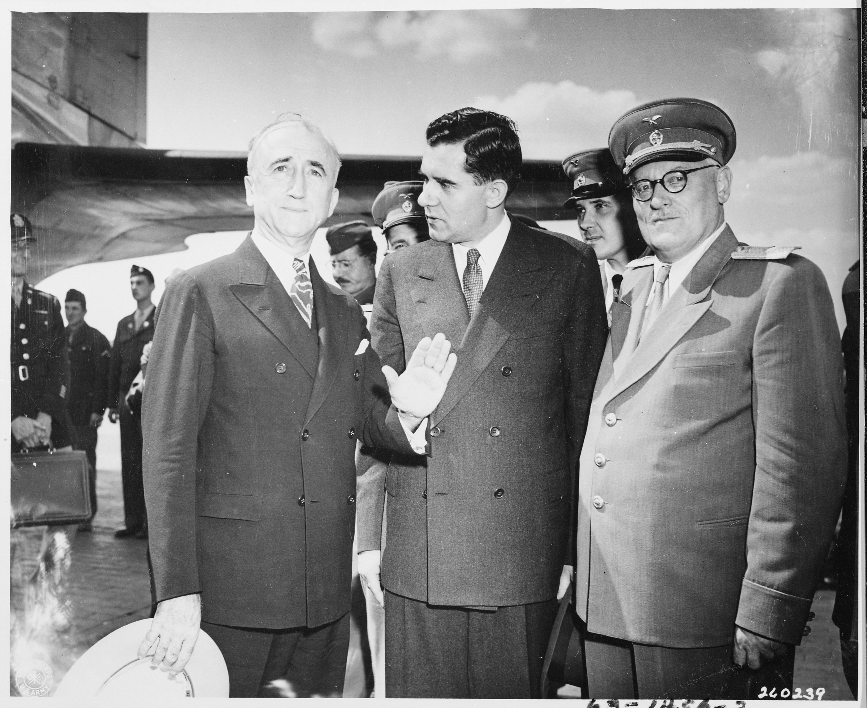 Scope and content: Secretary of State James Byrnes (left) is greeted at the airport en route to the Potsdam Conference by Soviet Ambassador to the United States Andrei Gromyko (center) and Soviet Foreign Affairs Minister Andre Vishinsky(right).